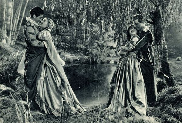 The film "A Midsummer Night's Dream" (USA, 1935)